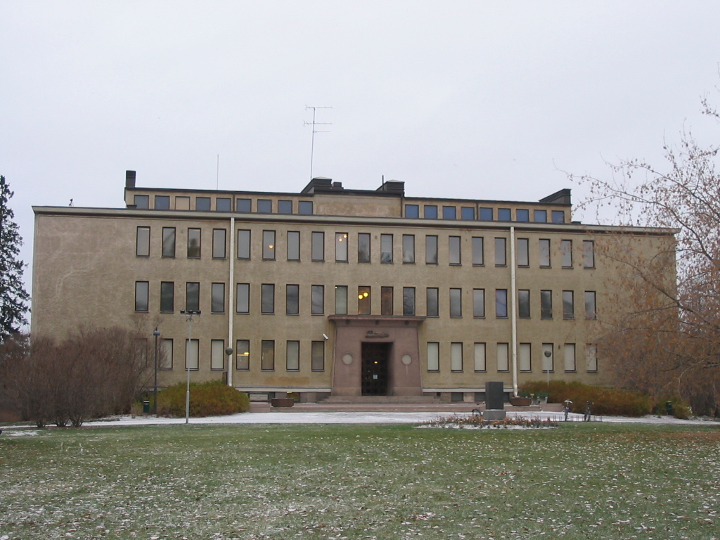 Author: Estormiz Description: The Northern Ostrobothnia museum in the Ainola Park in Oulu, Finland. Building has been designed by Oiva Kallio and completed in 1931. Date: 2005-10-28